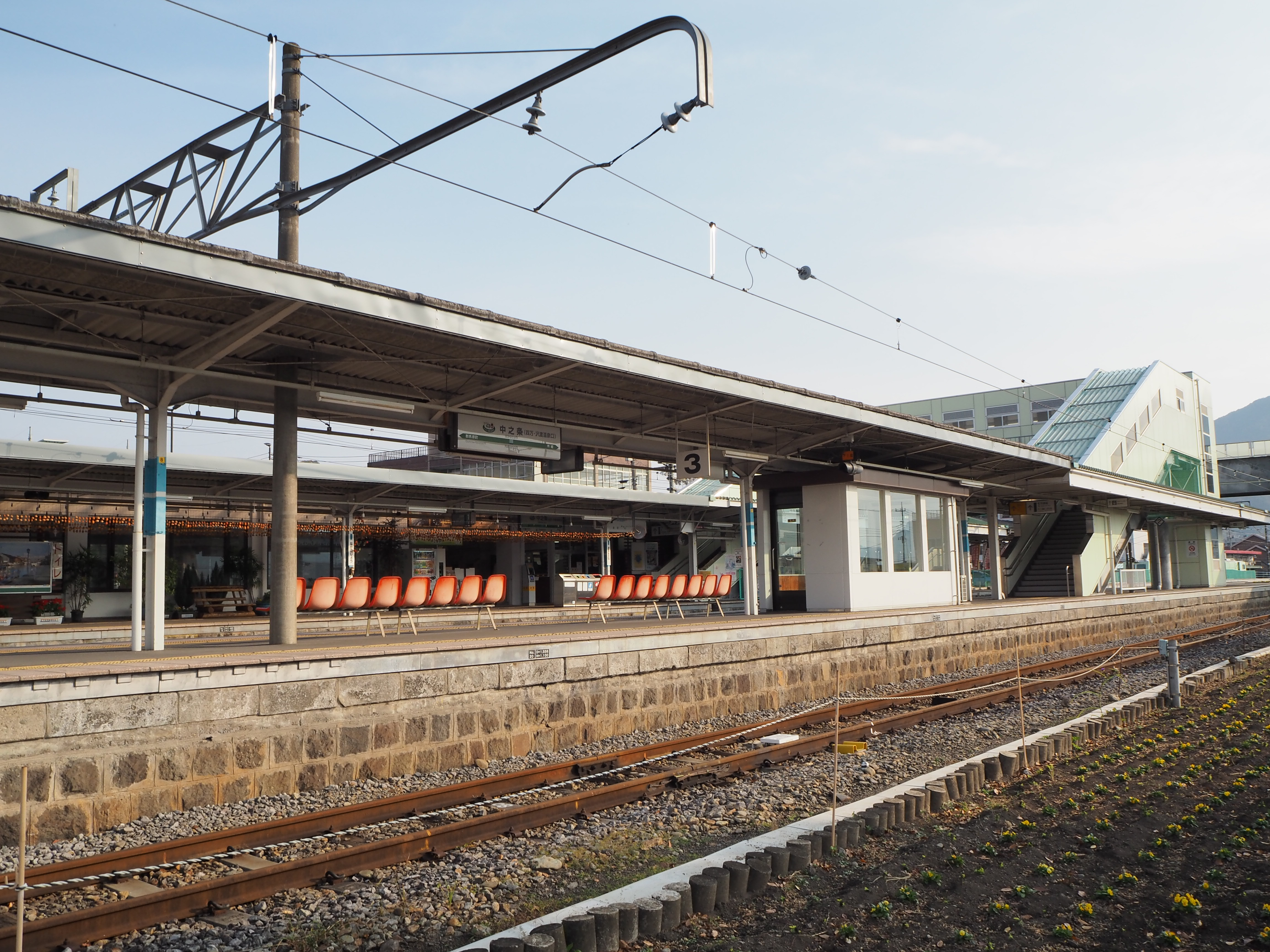 Platforms of Nakanojō Station